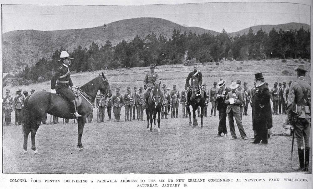 Caption reads: "Showing Colonel Pole Penton delivering a farewell address to the Second New Zealand contingent at Newtown Park, Wellington, Saturday, 20 January" Arthur Pole Penton (right, on horse) -- Commandant of the New Zealand Defence Forces -- delivering an address to the Second New Zealand Contingent (most likely, they departed 20 January 1900) that was about to depart Wellington for the Second Boer War (1899-1902) in South Africa.